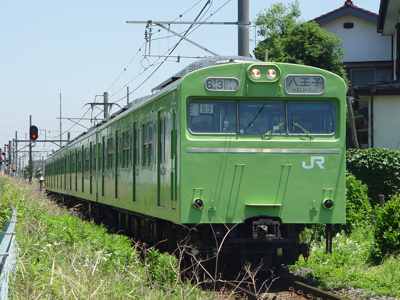 JR East 4-car 103-3000 series EMU set 53 between Matoba and Kasahata stations on a Kawagoe Line service, 5 June 2004